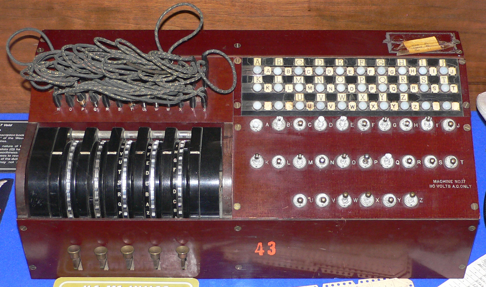 Pictures taken by myself at the US National Cryptologic Museum.